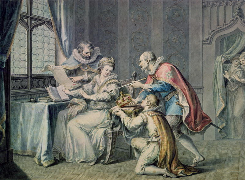 The Dukes of Northumberland and Suffolk praying Lady Jane Grey to accept the Crown